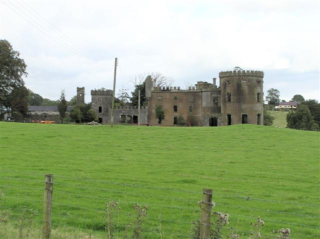 Killwaughter Castle. On multimap, it is noted as Killwaughter Castle (in ruins), but the townland is referred to as Kilwaughter.